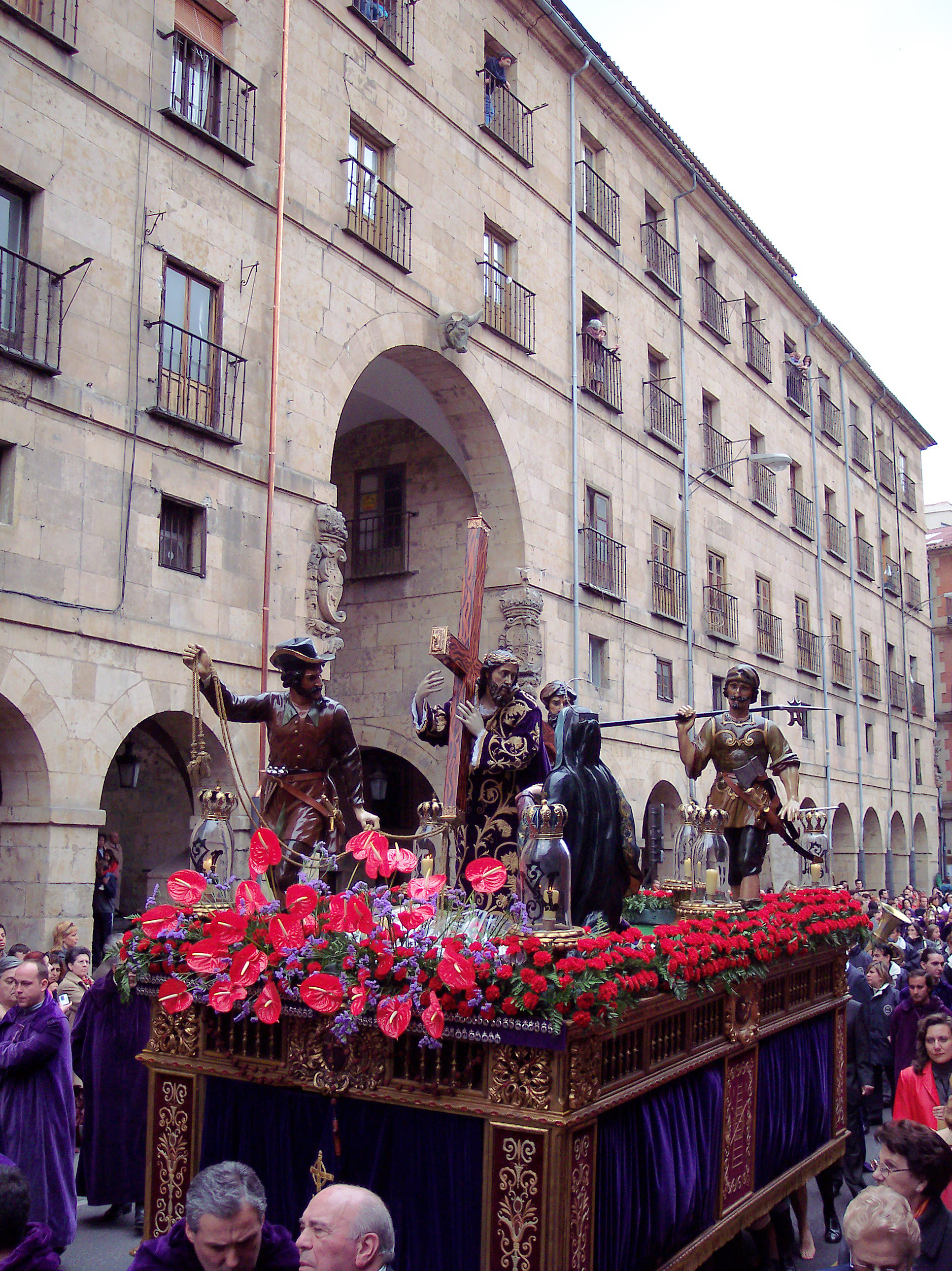 Float of Jesus Nazareno, Salamanca (España)